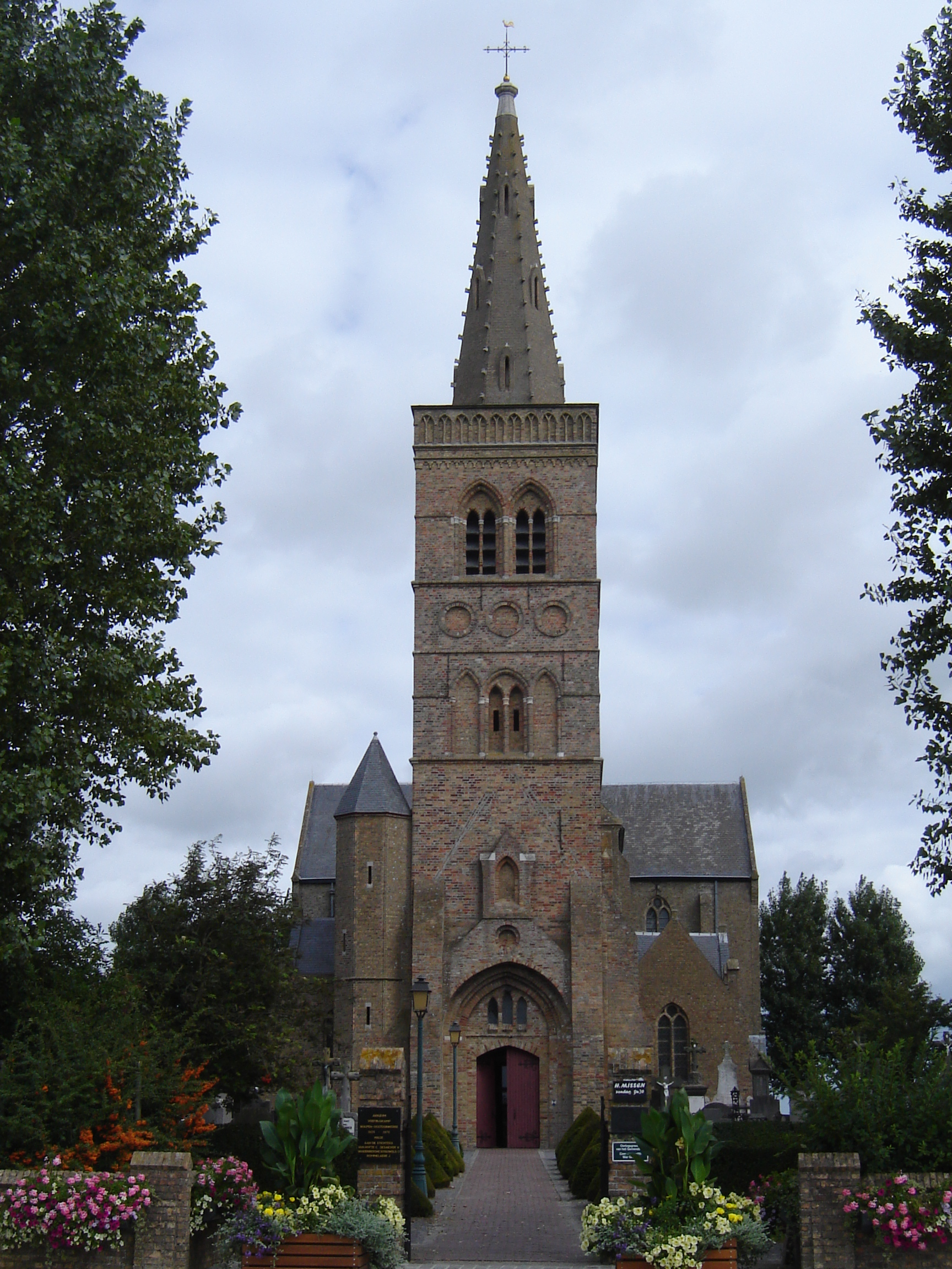 Church of Saint Willibrord in Wulpen. Wulpen, Koksijde, West Flanders, Belgium